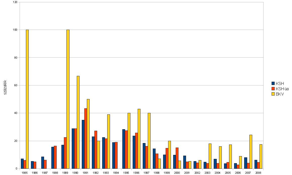 Comparison of the inflation in Hungary (blue), the change of fuel prices (red) and the change of BKV-ticket prices (yellow). Year/year.